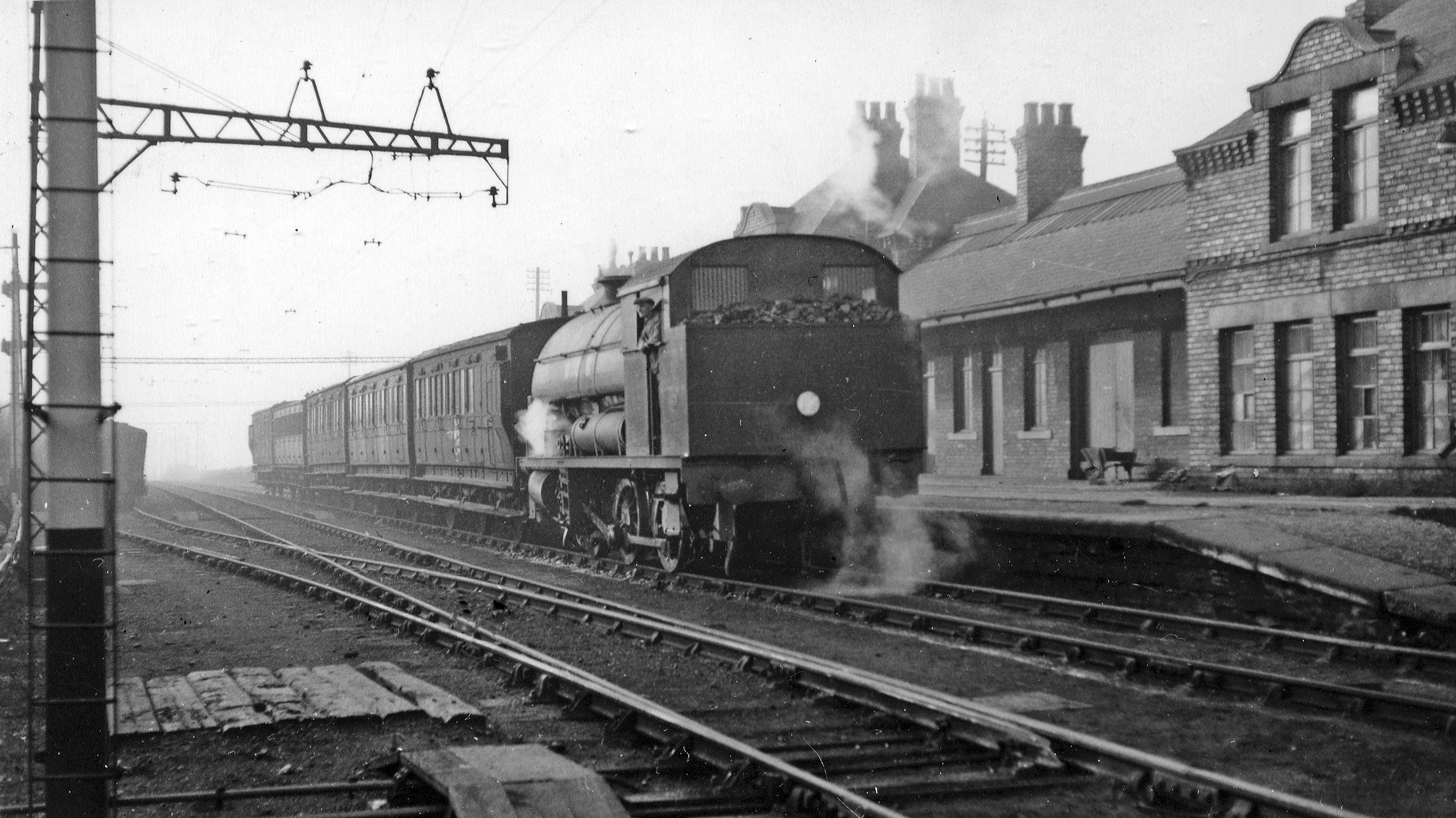 Westoe Lane station, South Shields, Marsden & Whitburn Colliery Railway on Last Day, 1953View west, towards Tyne Dock. The Last(daylight passenger) Train (13.00 to Whitburn Colliery) is about to leave, headed by R. Stephenson & Hawthorn 0-6-0ST No. 7749 of 1952. (See also NZ3666 : Westoe Lane station, South Shields & Whitburn Colliery Railway, 1953).